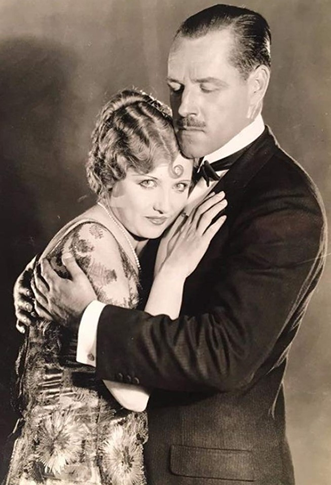 Eva Novak and Jack Holt in the American drama film Making a Man (1922) - publicity still (cropped)